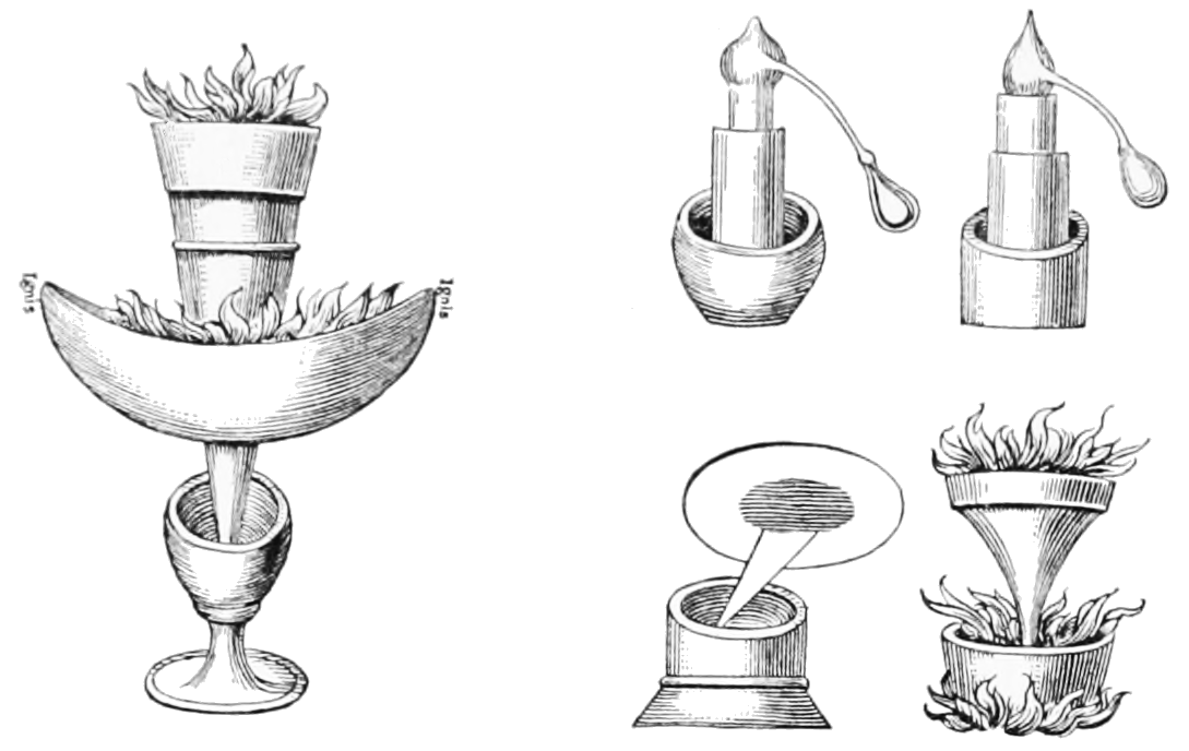 reprints from an early (16th century?) edition of Pseudo-Geber